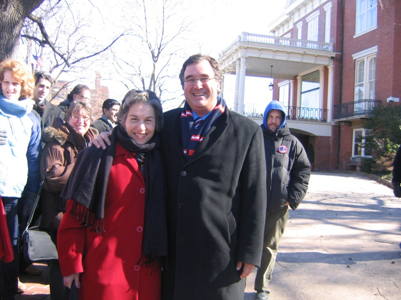 Jan Schakowsky and Jeffrey Schoenberg on day of Barack Obama presidential candidacy announcement.